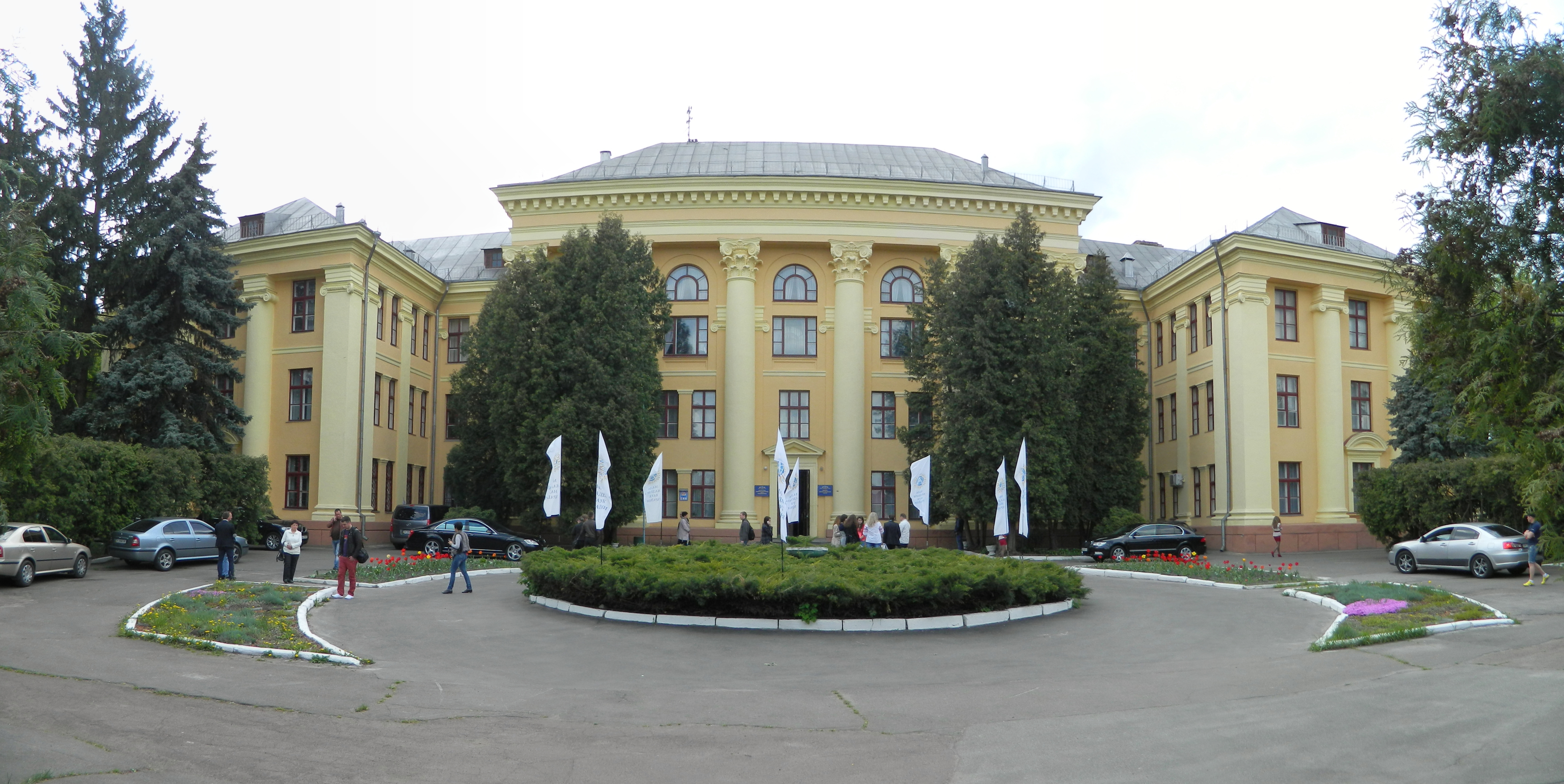 National ecological and naturalistic center of school student. Ukraine. Kyiv